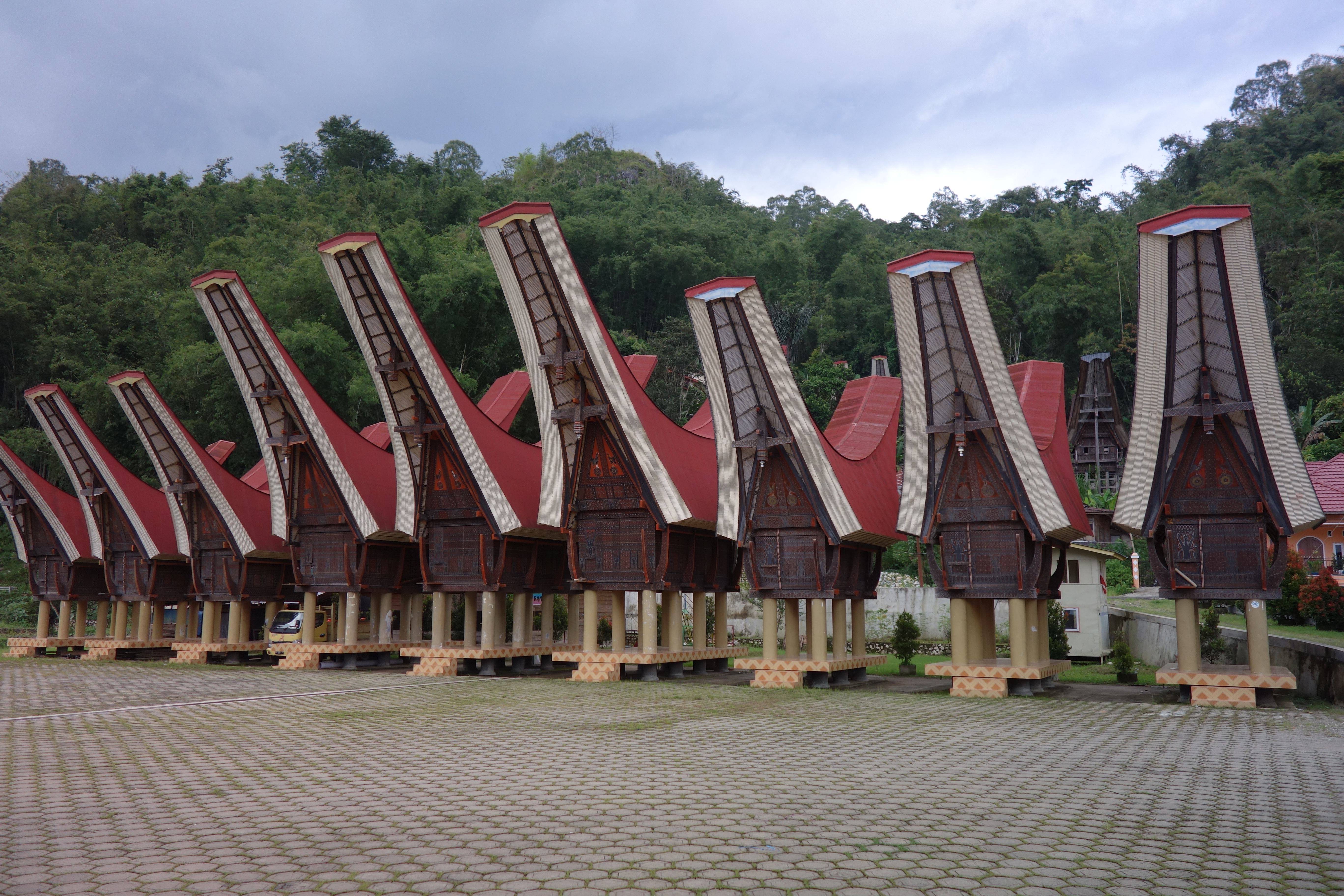 Modern Tongkonan in South Sulawesi, Indonesia.